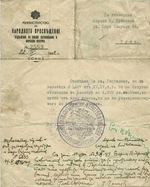 Letter from the Bulgarian Ministry of Education to Boris Hristov, 22 April 1942